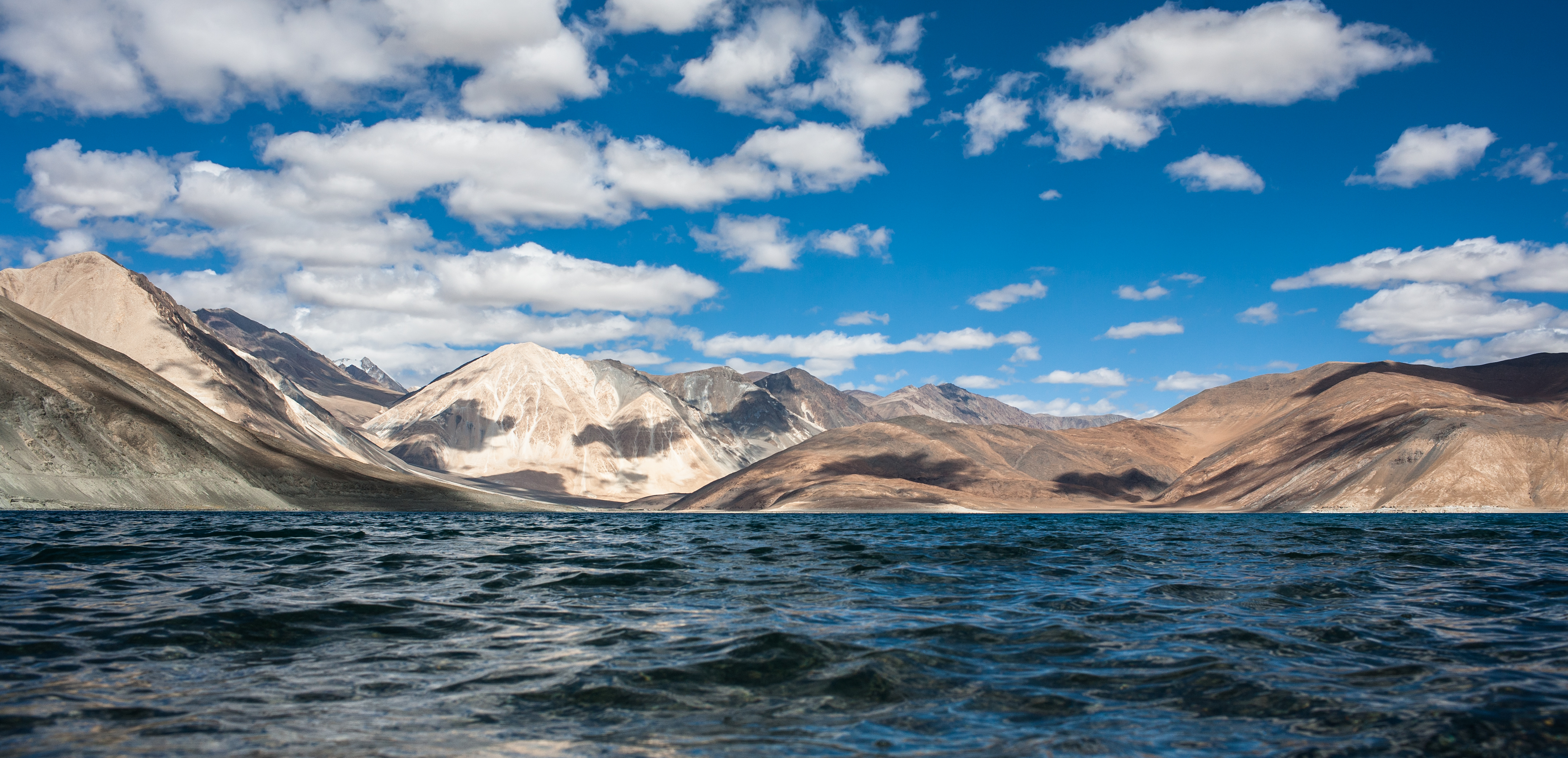 A view of Pangong Tso, an endorheic lake in the Himalayas, South Asia